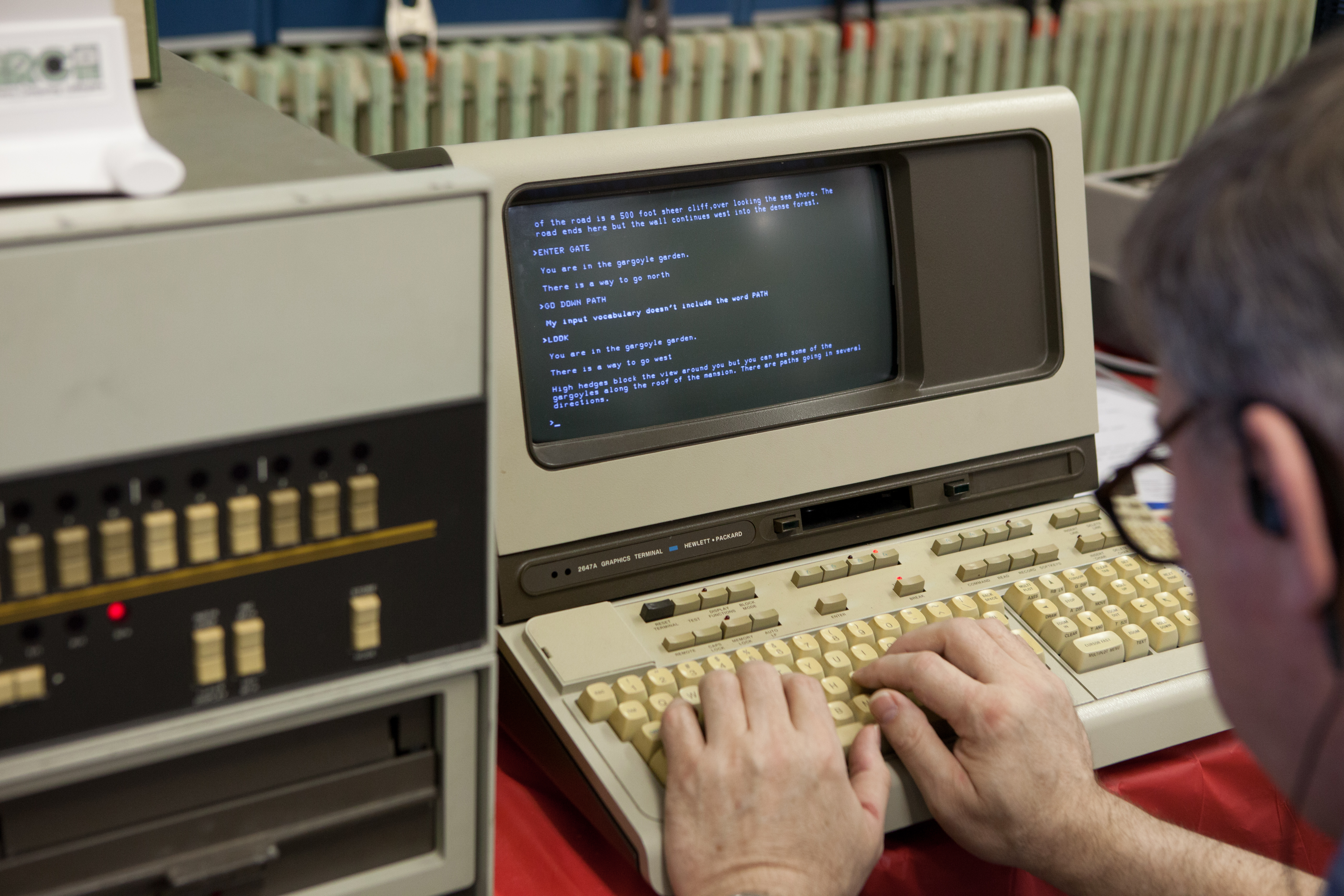 An HP 2647A graphics display terminal connected to a HP 1000 E-Series minicomputer at the 2012 Vintage Computer Festival East.